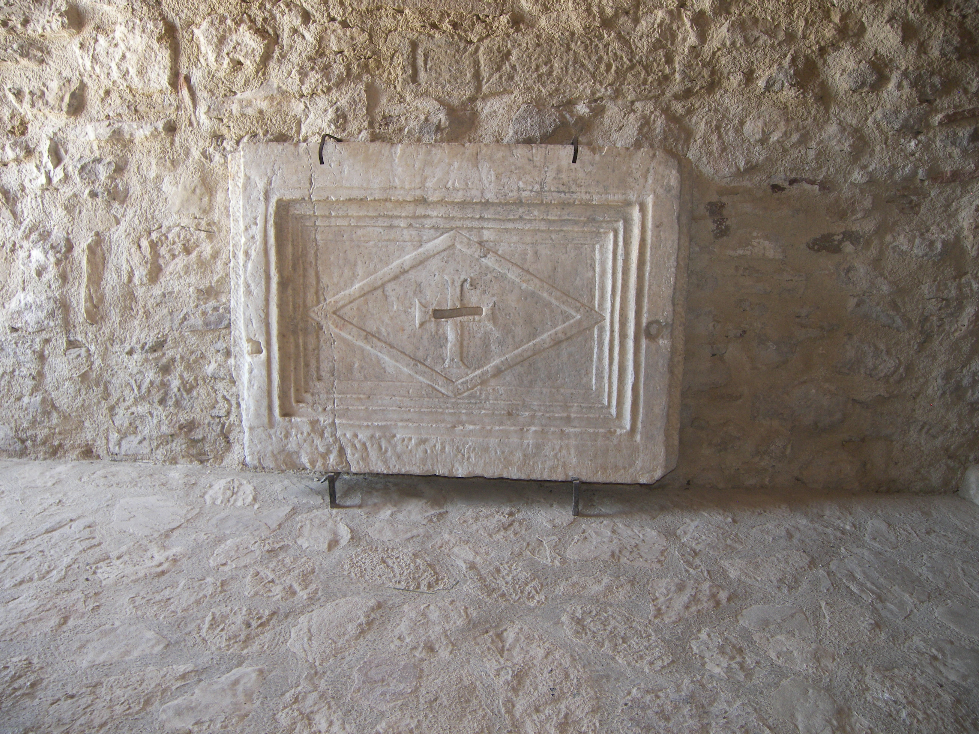 Please see filename.